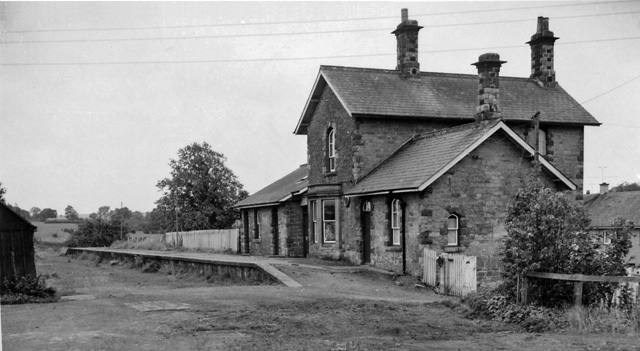 Former Barrasford Station. View SE, towards Hexham, on former Border Counties Line (Hexham - Riccarton Junction); station closed when line closed completely 15/10/56.